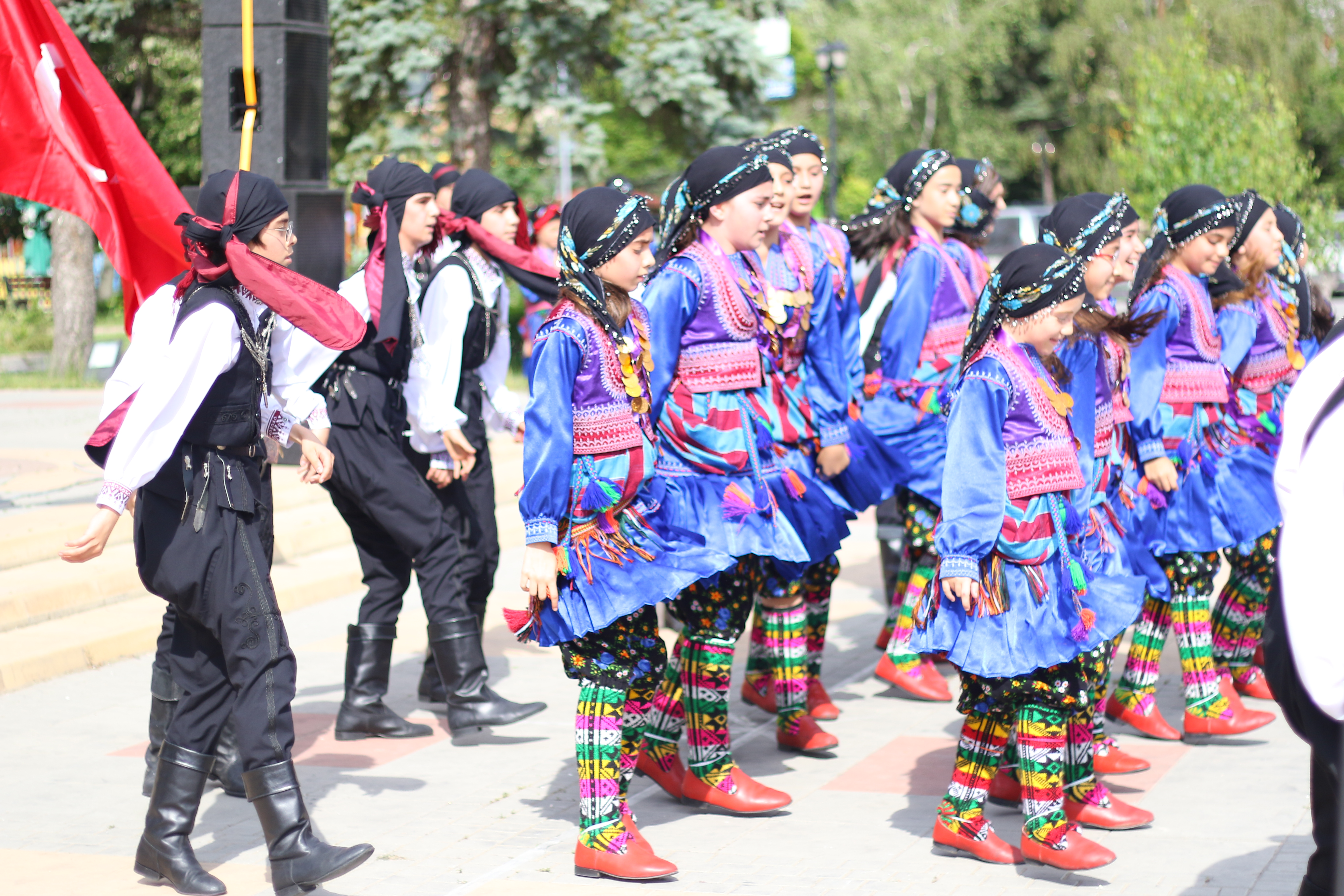 Children from Turkey perform folk dance This photo has been taken in the country: Turkey